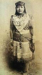 Sarah Winnemucca. Standing in her regalia.